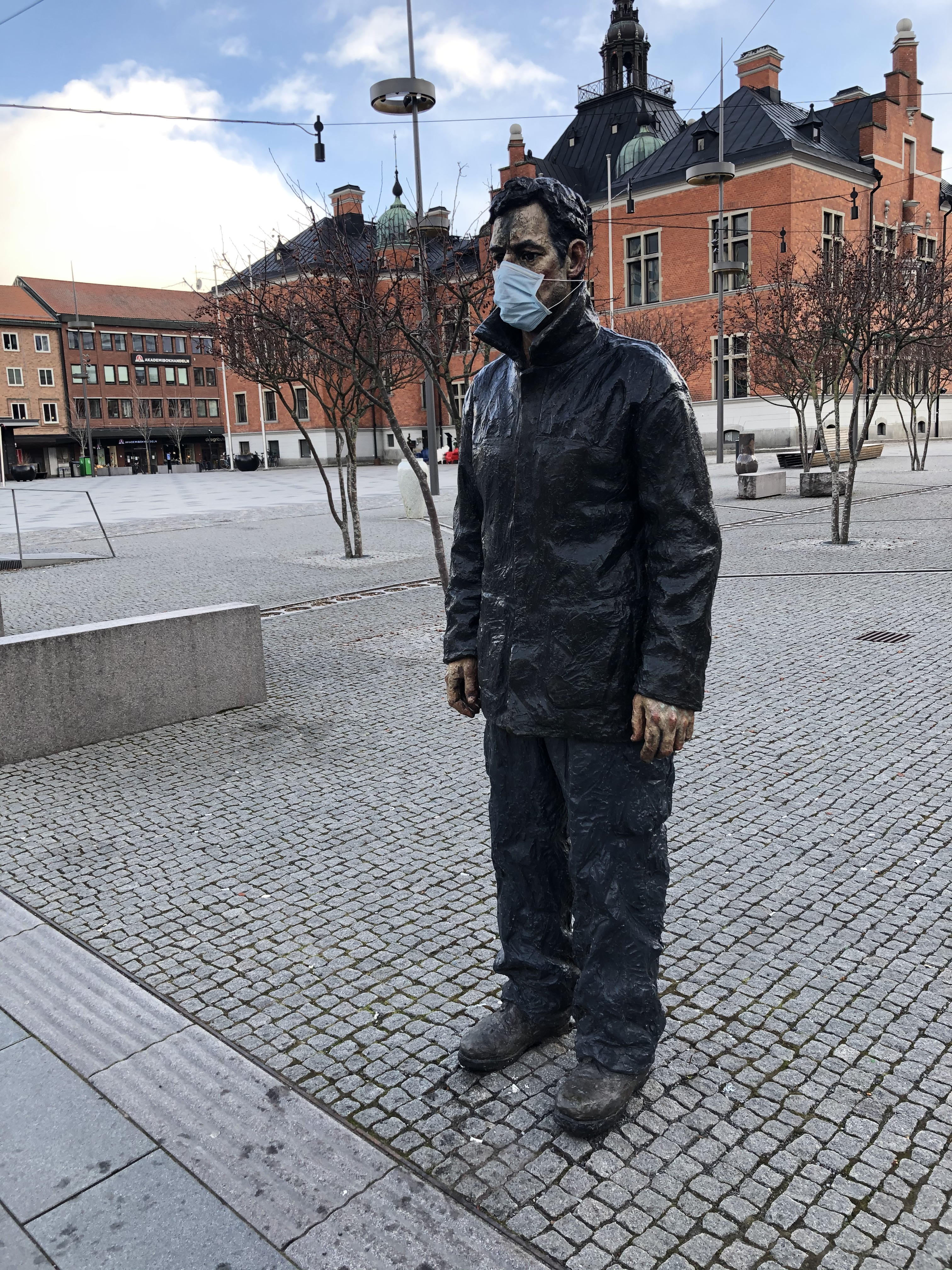 Sculpture Standing Man, equipped with a face-mask during the Covid19 pandemic, at the town hall square in Umeå, Sweden. Аҧсшәа: Skulpturen Standing Man, försedd med ansiktsmask under Covid19-pandemin, på Rådhustorget i Umeå.